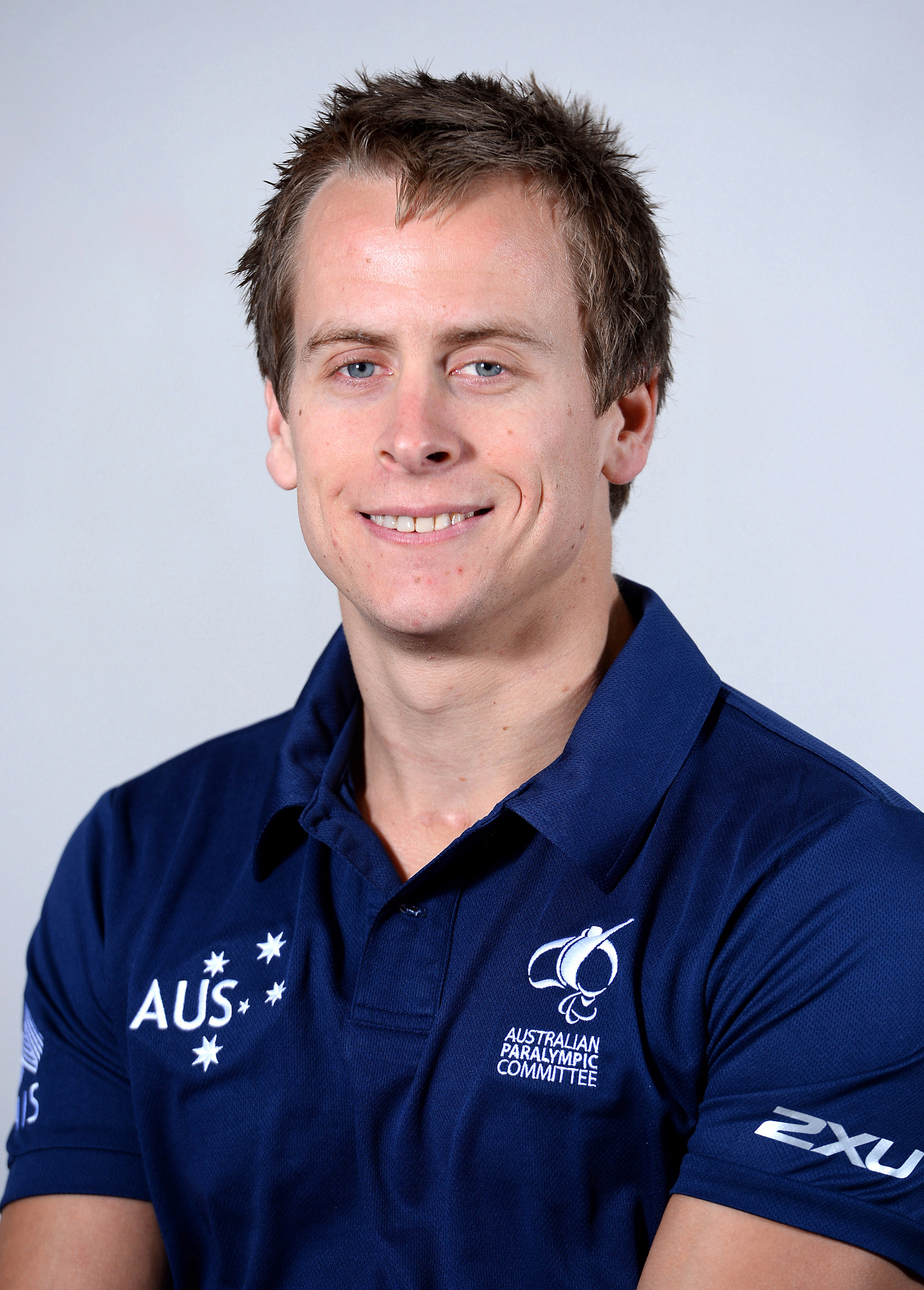 Portrait photograph of Josh Hose taken at team processing session for shadow members of 2016 Australian Paralympic team